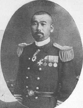 Kaneo Nomaguchi is an Imperial Japanese Navy Full Admiral